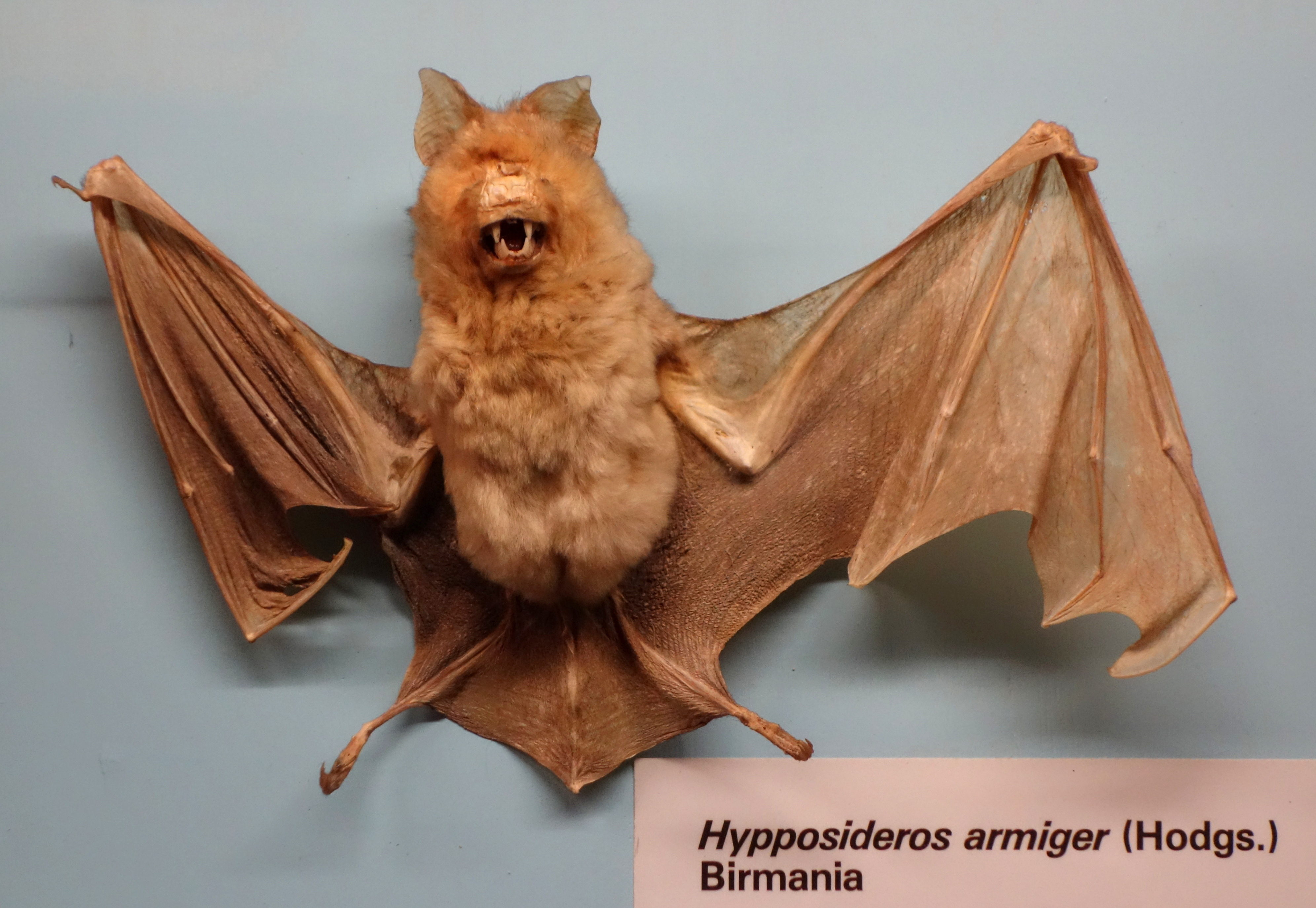 Exhibit in the Museo Civico di Storia Naturale di Genova, Via Brigata Liguria, 9, 16121, Genoa, Italy.